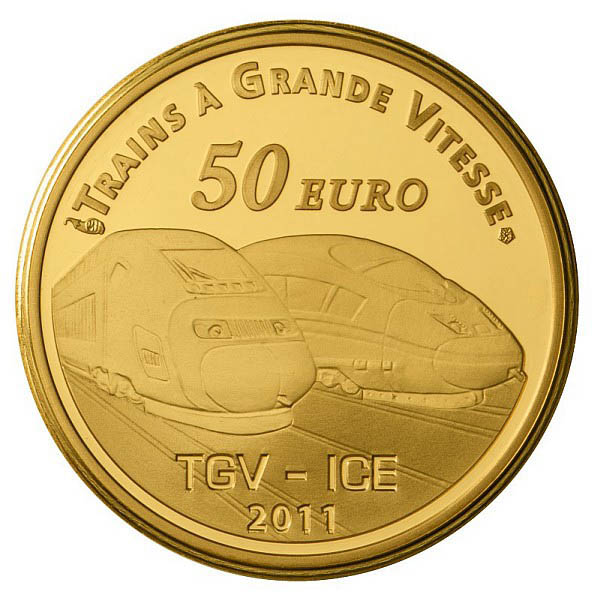 Pile gare metz 2011